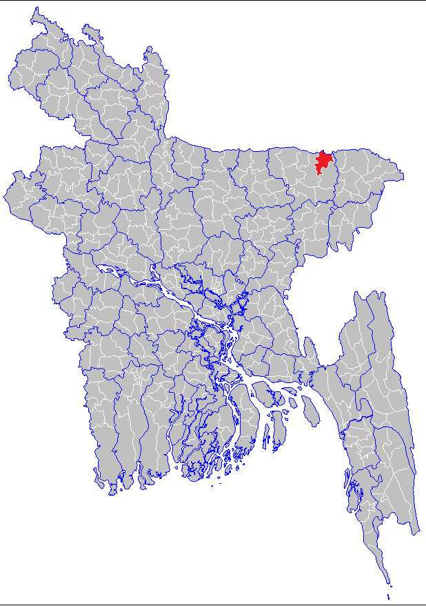 Location of Dowarabazar in Bangladesh